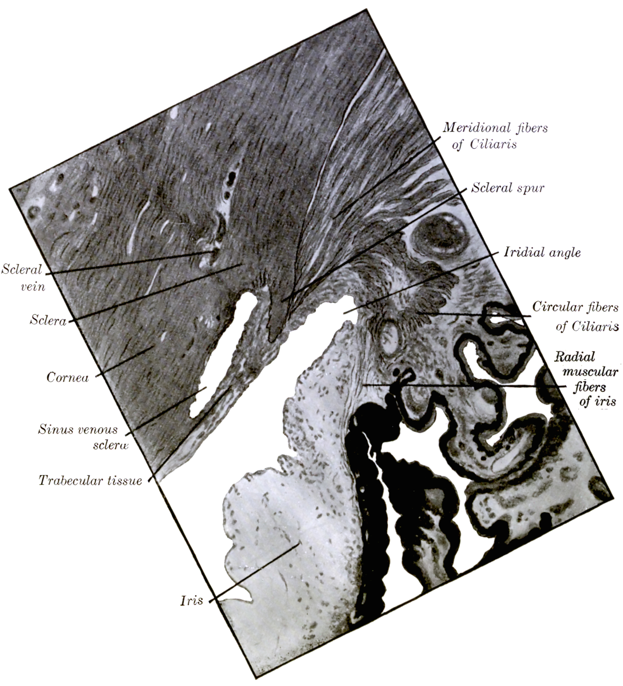 Fig. 870: Enlarged general view of the iridial angle.